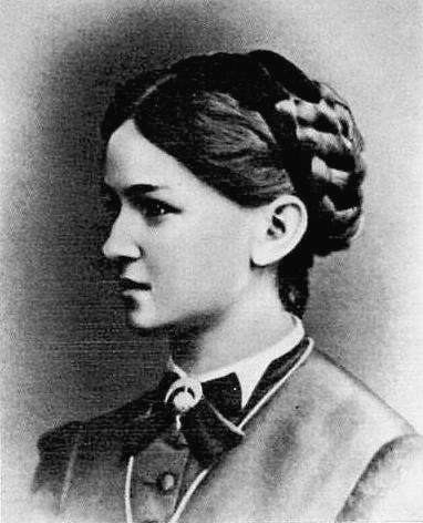 Photograph of Nadezhda Nikolayevna Rimskaya-Korsakova nee Purgold